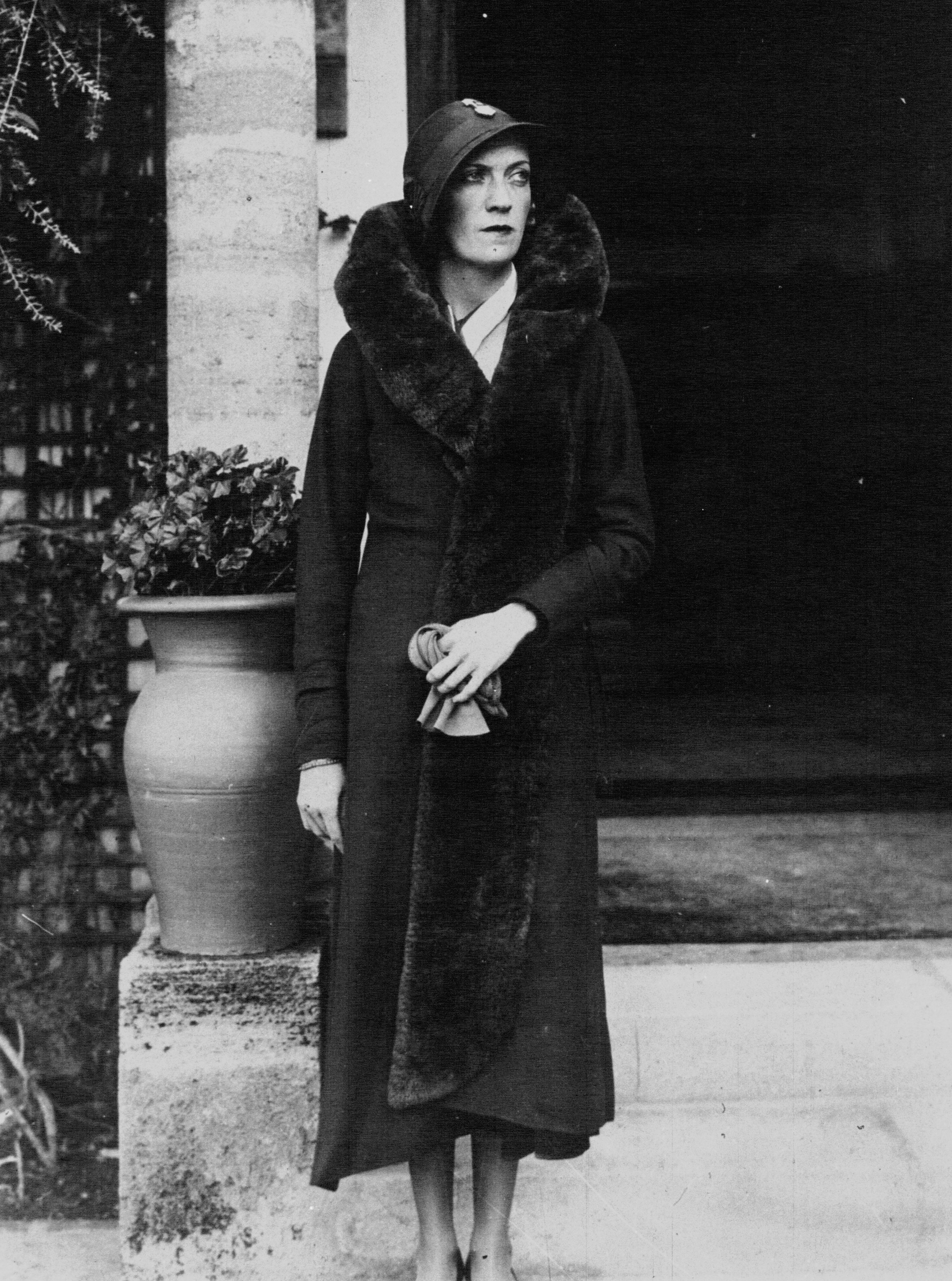 French yachtswoman Virginie Hériot (1890-1932).